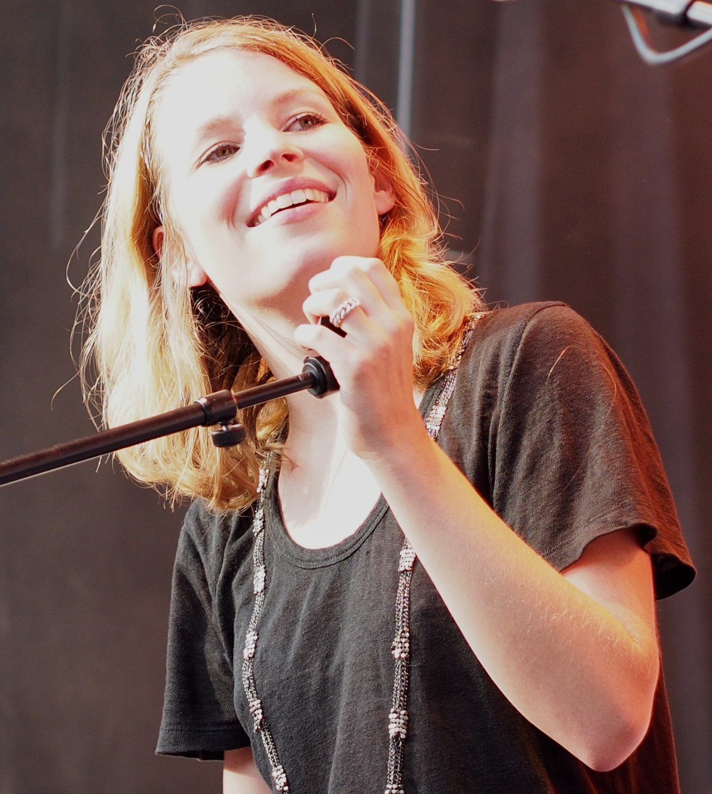 Anna Rossinelli performing at the Openair auf dem Bundesplatz 2012, Bern, Switzerland.